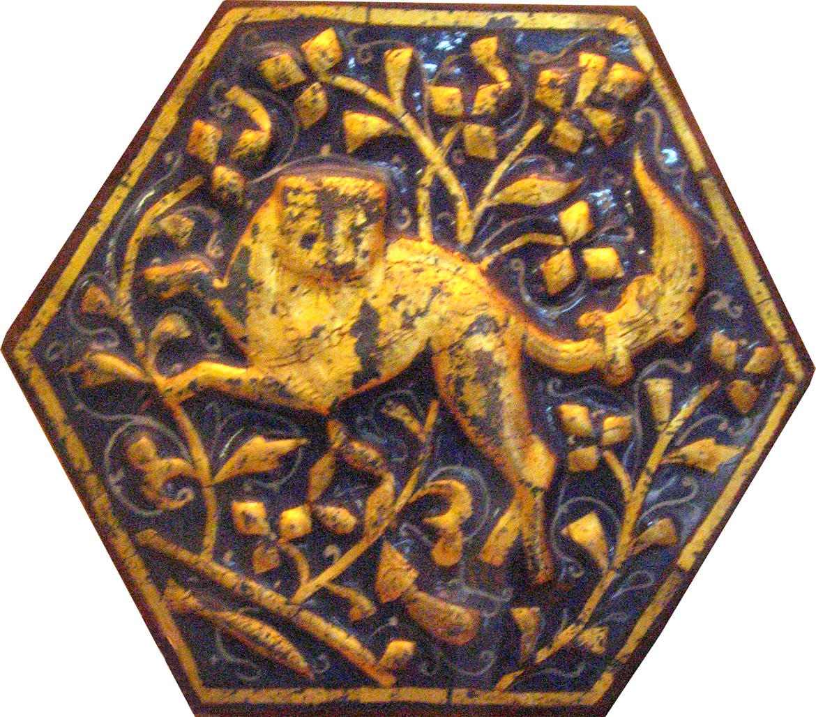 Indigo colored leaf glided tile. Painted over glaze, Takht-e Soleyman, 1270-1275. National Iran Museum, Tehran.